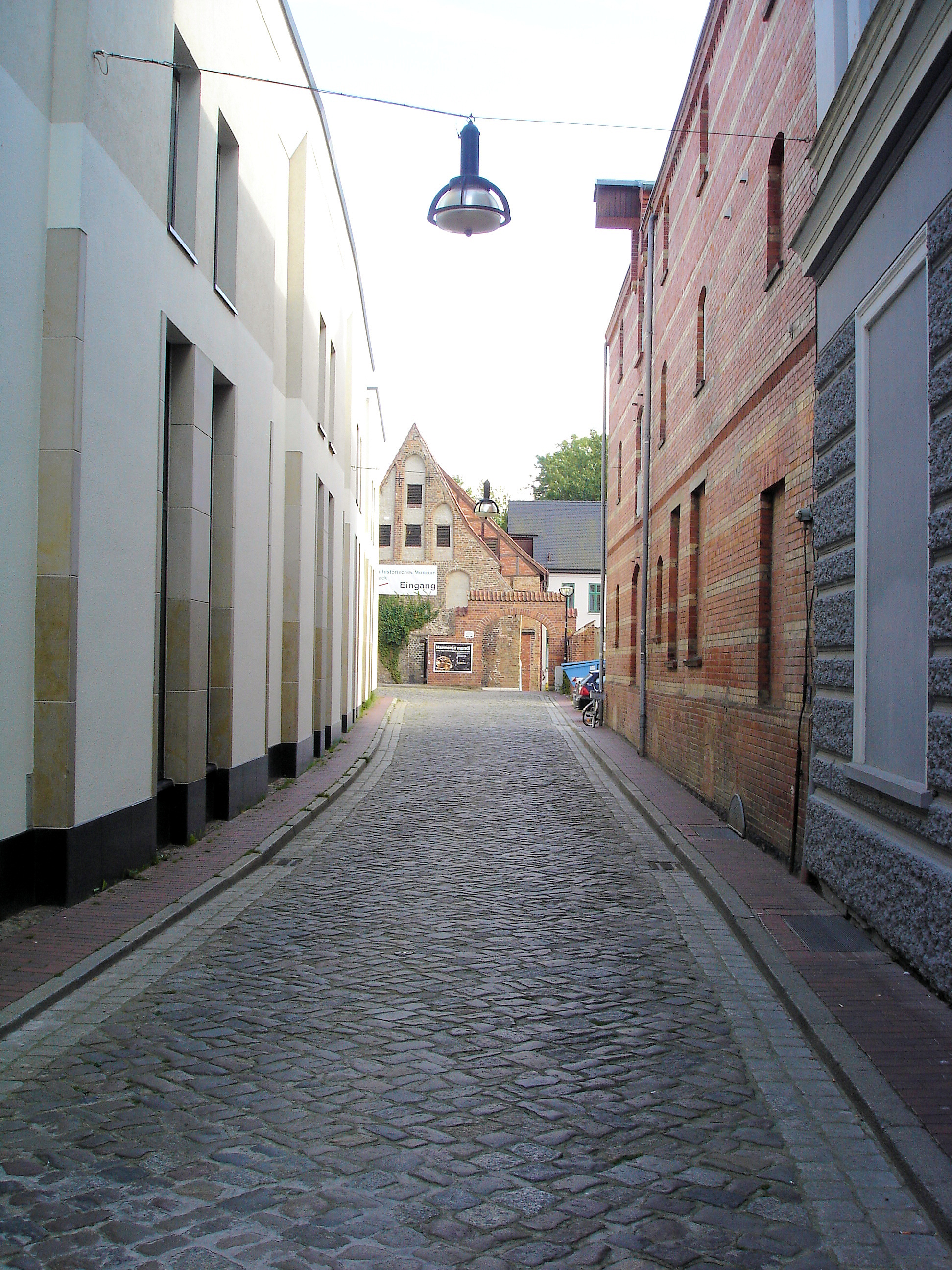 Street in the historic city of Rostock